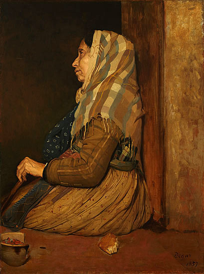 Roman beggar